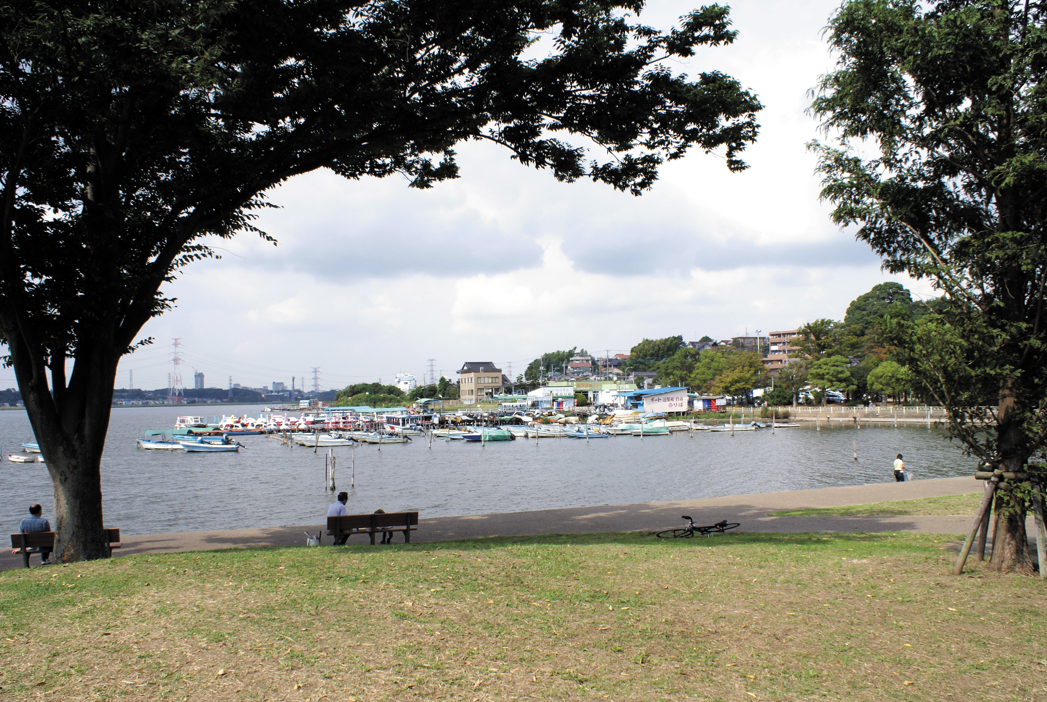 Teganuma Park in Ciba Japan